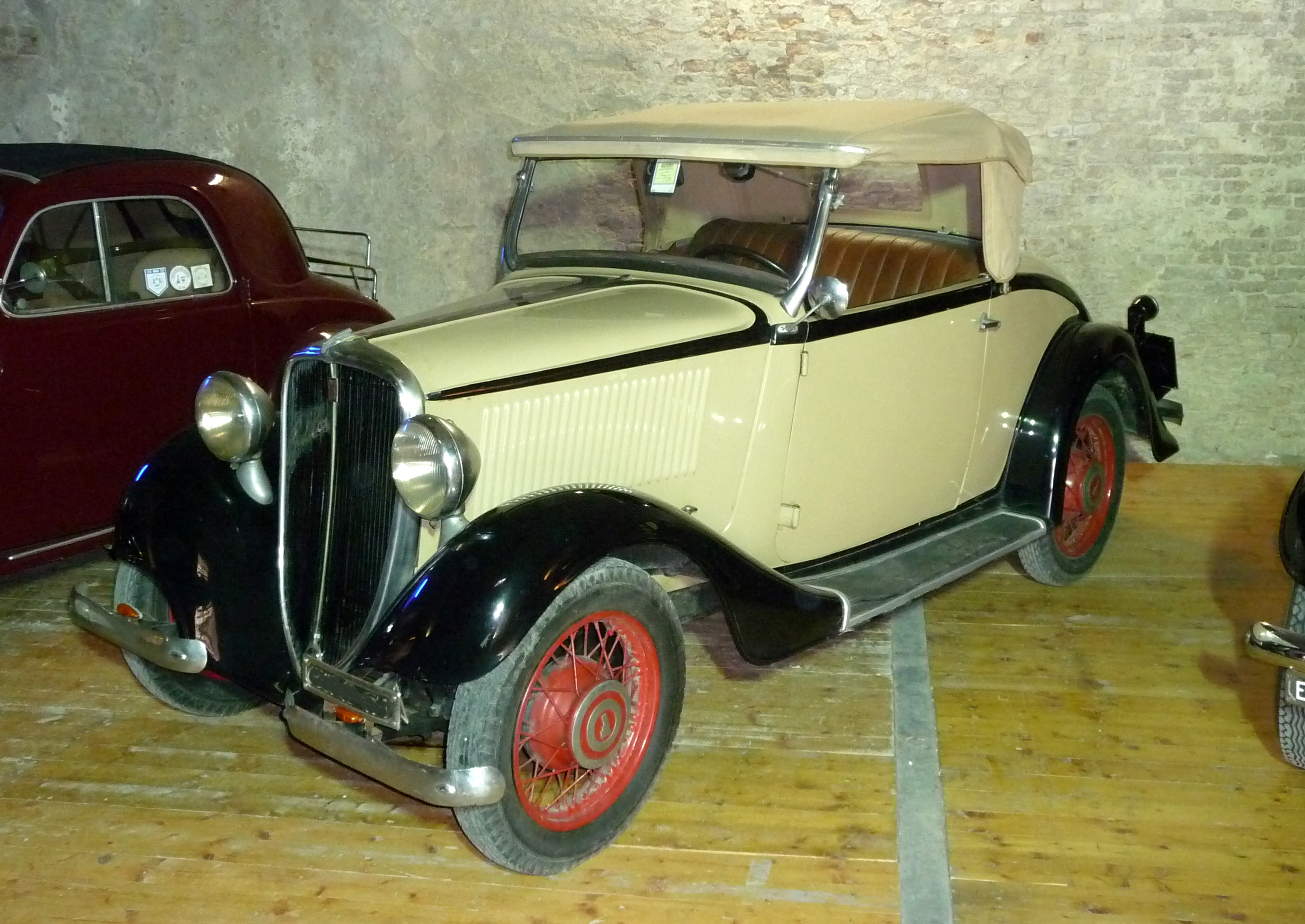 Fiat 508 Balilla